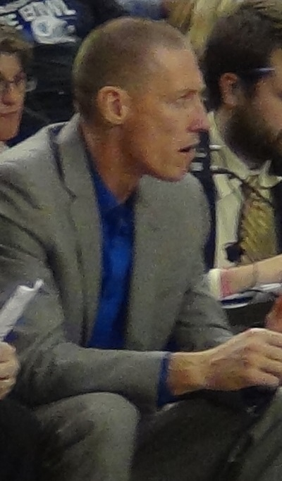 Boise State asst coach John Rillie